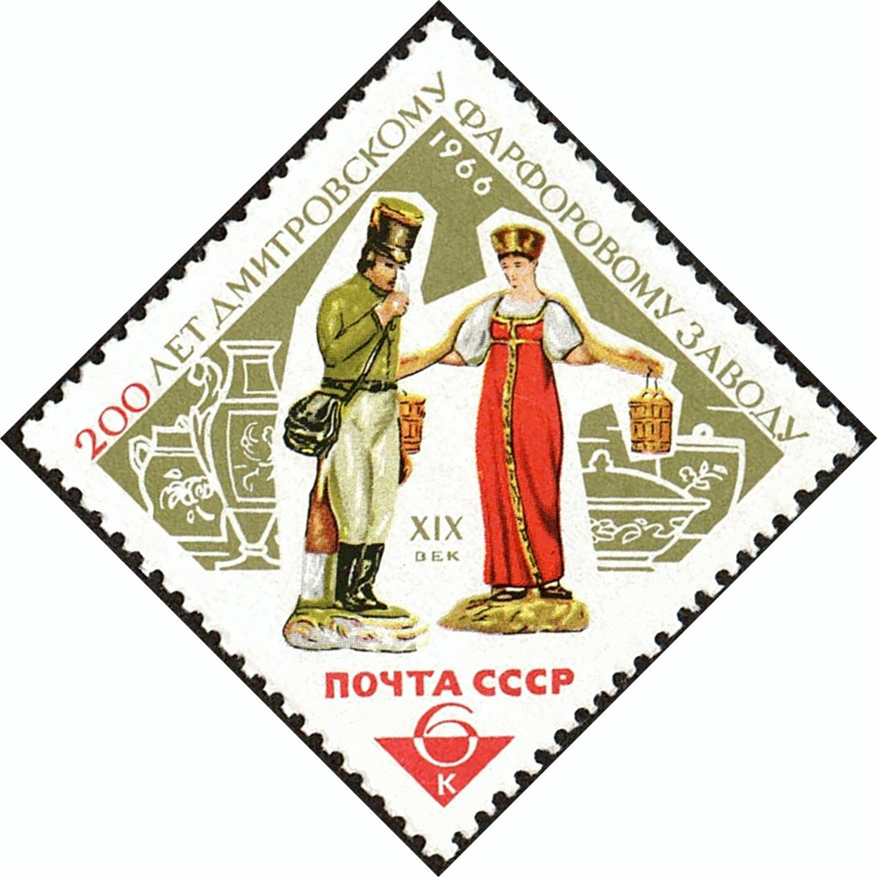 200th anniversary of the Dmitrov Porcelain Factory[1]. The porcelain statuettes The Postman and The Girl with a Yoke by the sculptor Stepan Pimenov (1784–1833) after sketches by Alexey Venetsianov. 1815–1822[2]. The stamp of the Soviet Union, 6 kopecks, 28 January 1966, CPA Catalogue No 3304, Michel No 3173, Scott No 3152, Yvert No 3060. Coated paper. Offset printing. Perforation: comb 11½. Size of the stamp: 37×37 mm. Print run: 4,000,000.